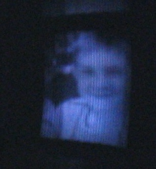 An early television image from an experimental mechanically-scanned television receiver from the 1930s. The receiver uses a fluorescent light shining through a spinning disk with a pattern of holes in it called a Nipkow disk to create a raster image. Dozens of radio stations experimented with mechanical-scan television broadcasting until the technology was replaced by modern electronically-scanned TV technology around World War 2.